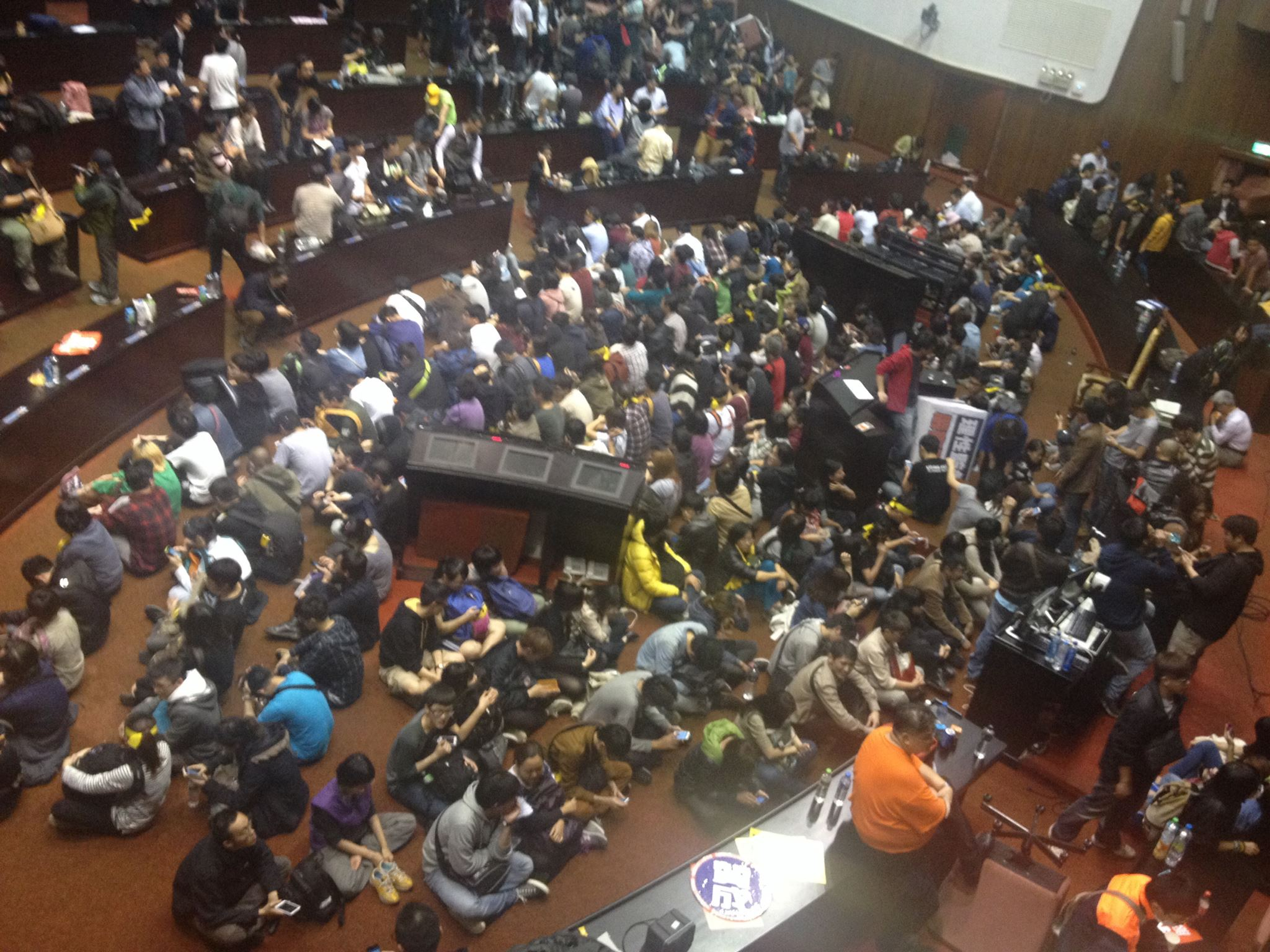 Occupy Taiwan Legislature on March 19, 2014